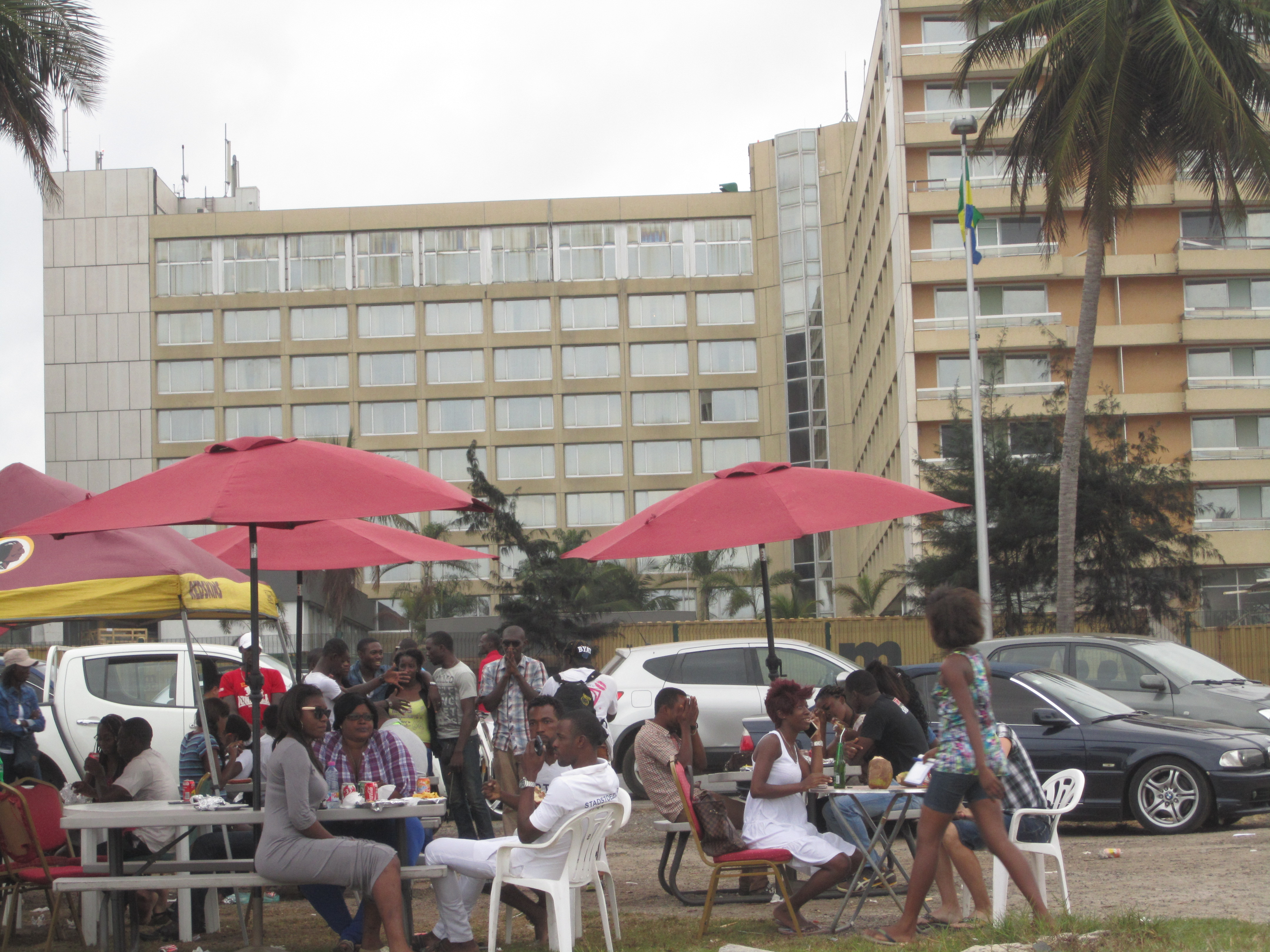 This is an image of Cultural Fashion or Adornment from Gabon